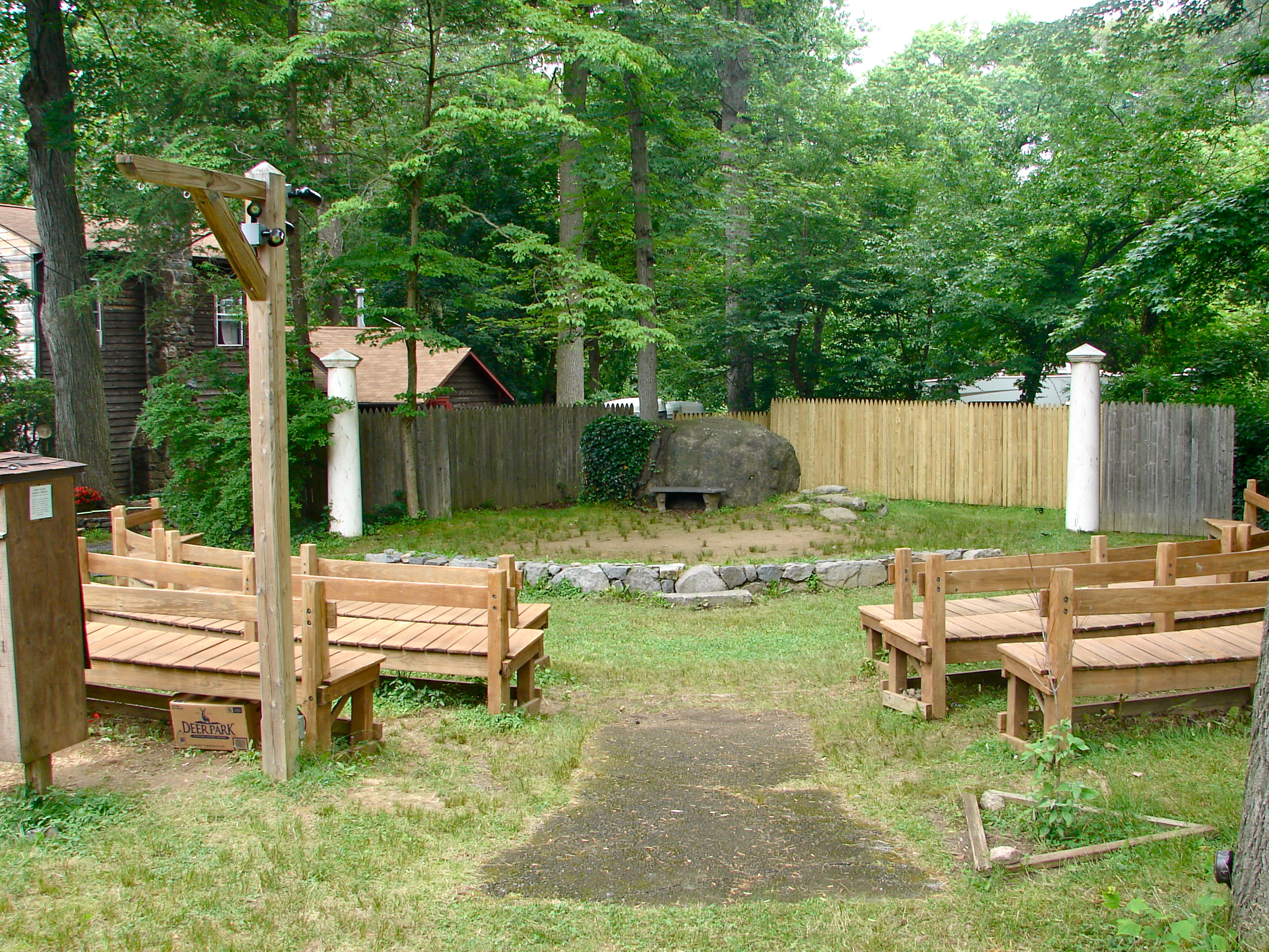 Frank Stephens Theater in Arden, Delaware, seating capacity 96 according to the small sign on the post at the left. Part of the Arden Historic District on the NRHP